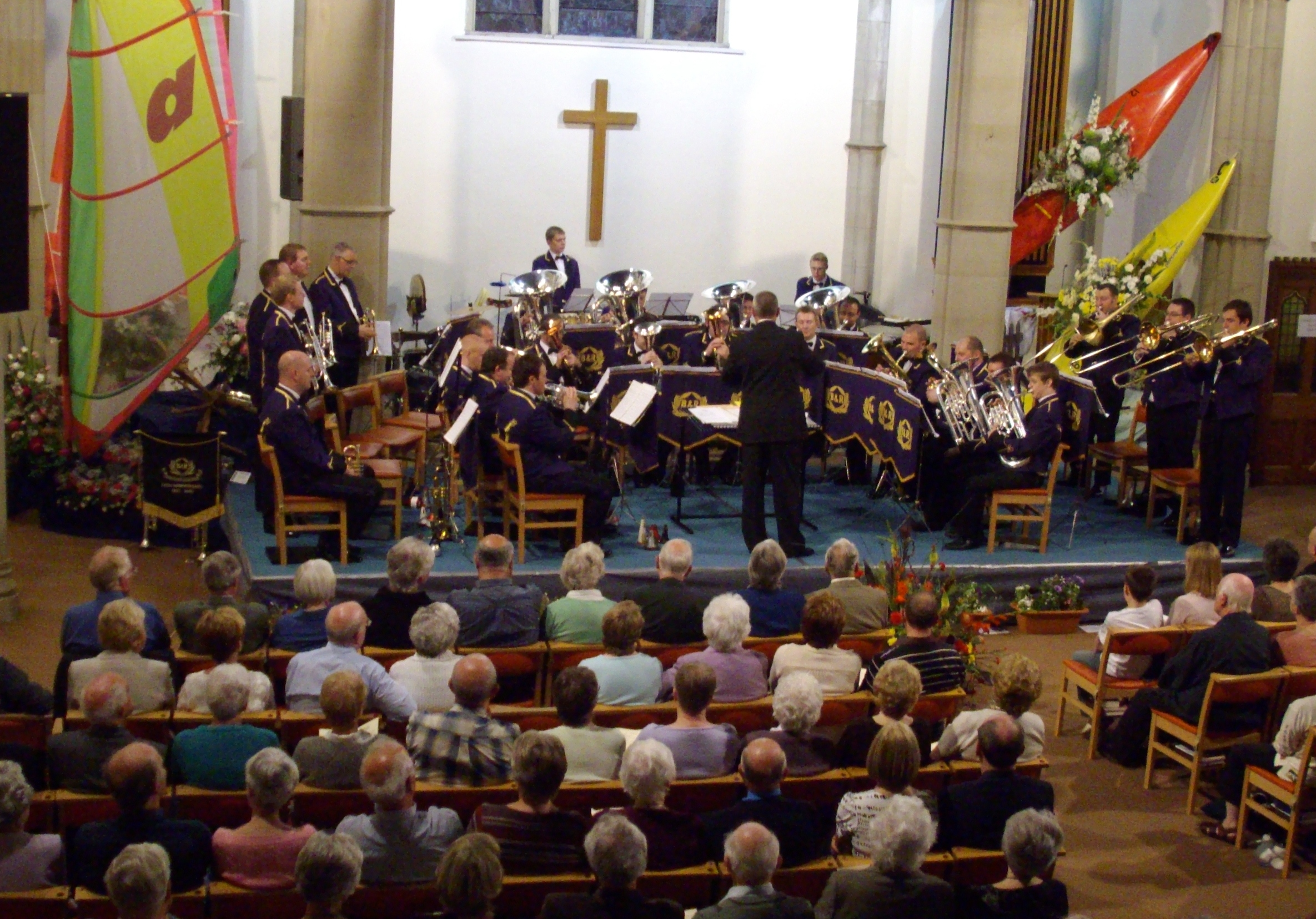 The Brighouse and Rastrick Band performing at Brighouse Central Methodist Church on the 21st June 2008